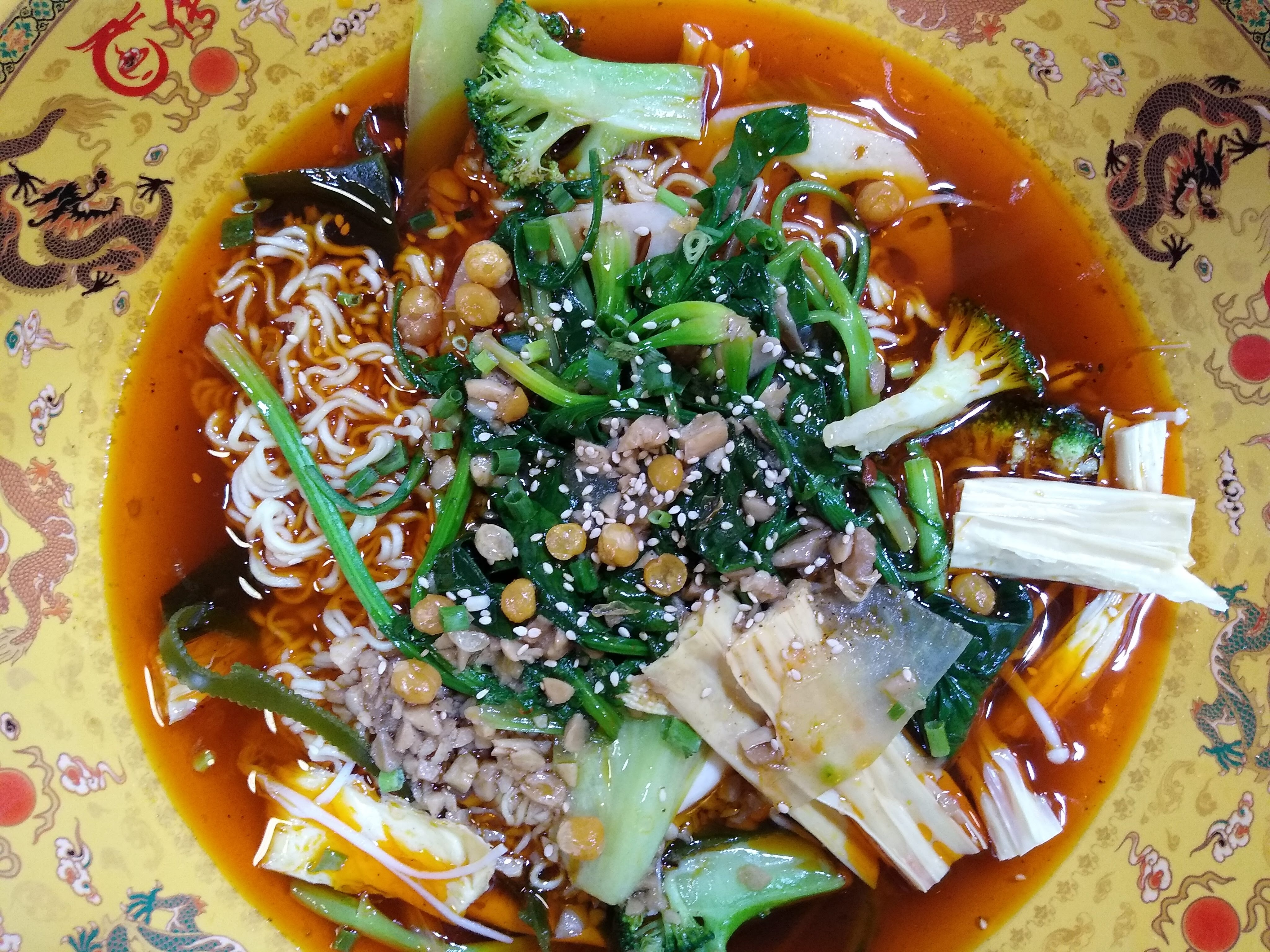 A branch of the maocai restaurant Chuánqí Màocài in Shenzhen.